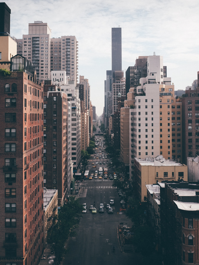 500px provided description: 1st Street New York [#Architecture ,#Street ,#City ,#New York ,#Fujifilm ,#Manhattan ,#Buildings ,#Queensboro Bridge ,#X100T]